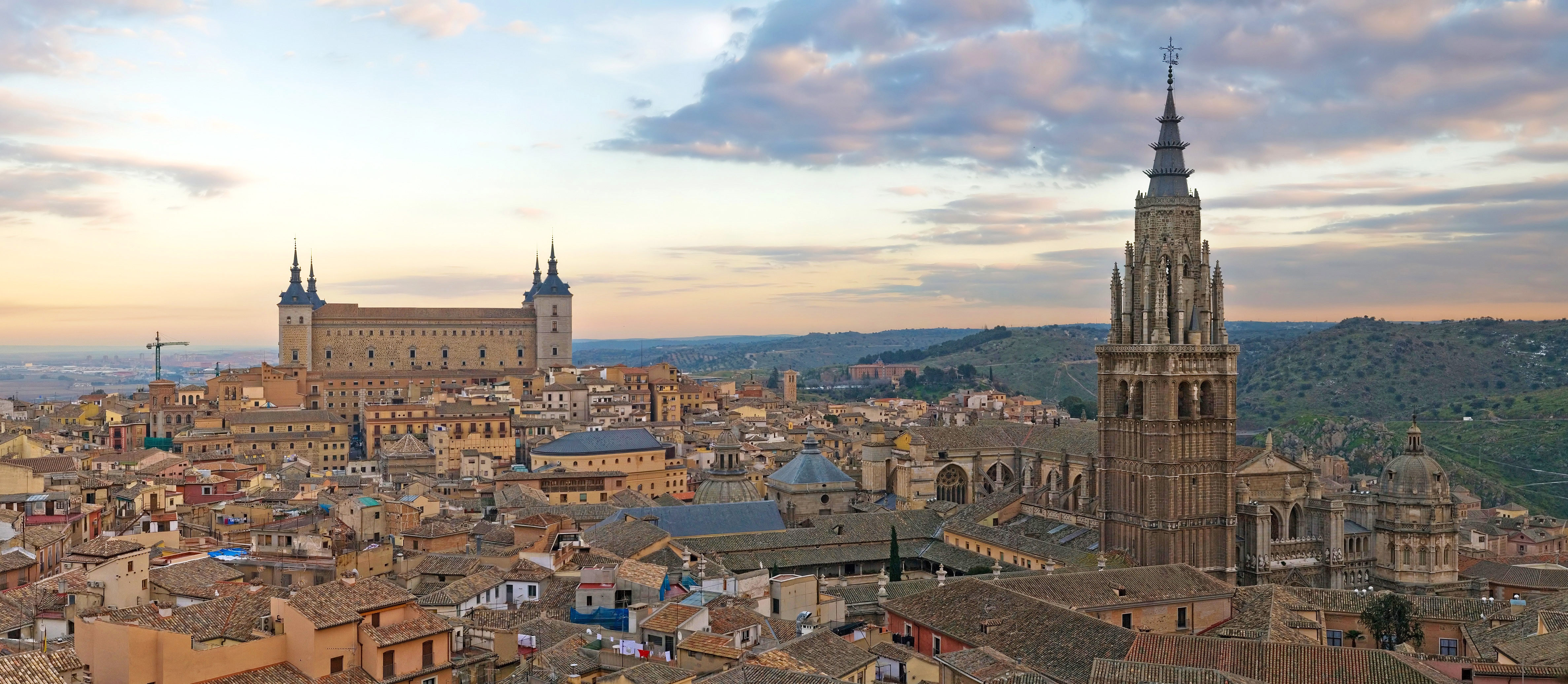 A four segment panorama of the Toledo Skyline in Spain at sunset. Taken by myself with a Canon 5D and 70-200mm f/2.8L lens.